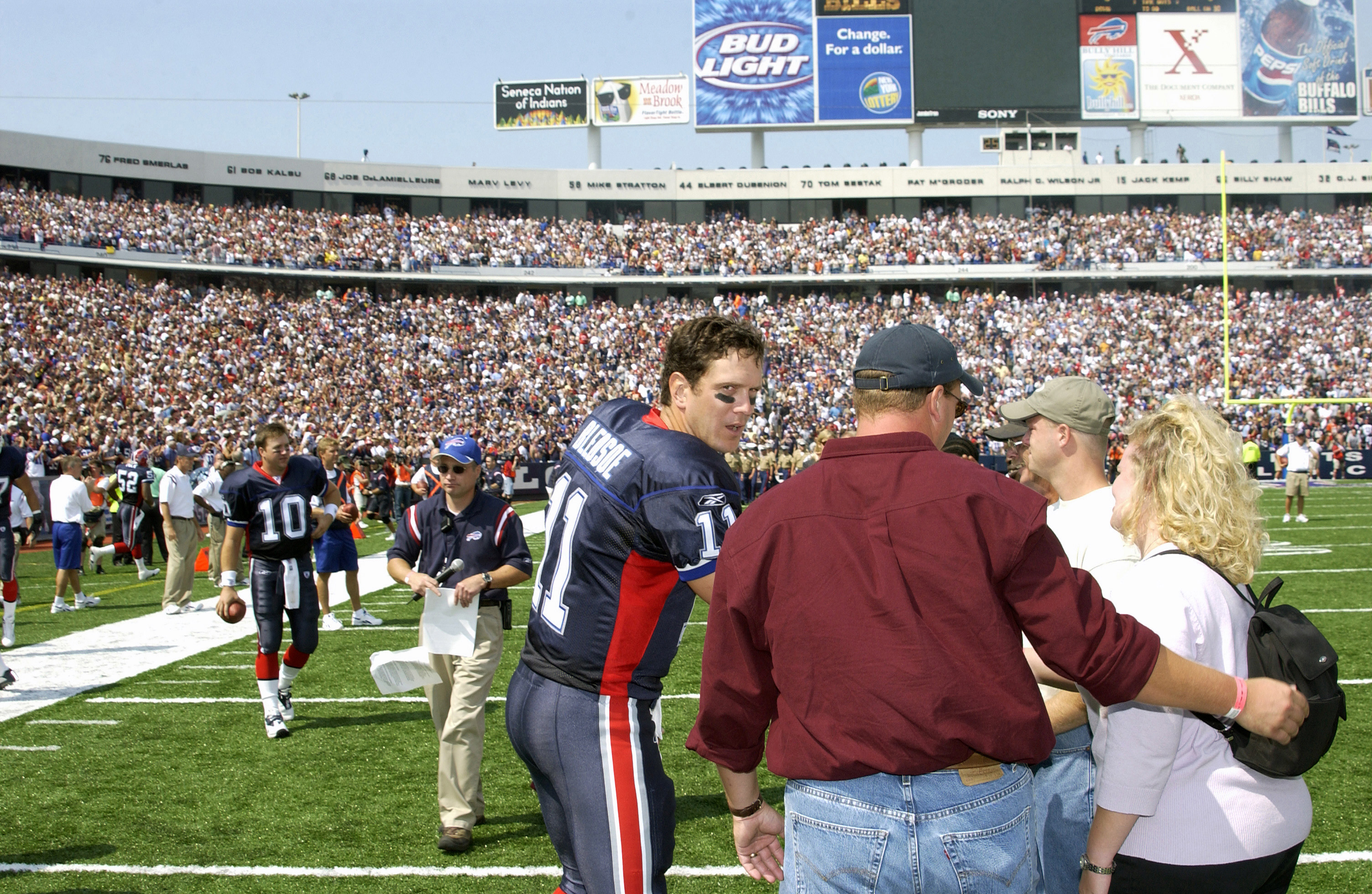 During the pre-game honors, Quarterback Drew Bledsoe of the Buffalo Bills football team, meets with family members of deceased Iraqi war personnel at Niagara Falls, New York, on September 7th, 2003.